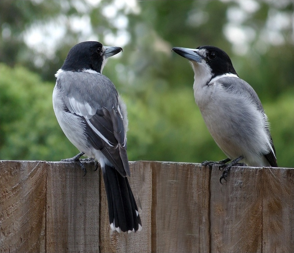 Two Grey butcherbirds perching on a garden fence - the photographer puts meat out for them - in Brisbane, Queensland, Australia.